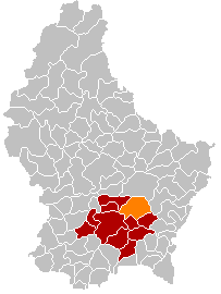 Own edit of Kanton LuxemburgLocatie.png